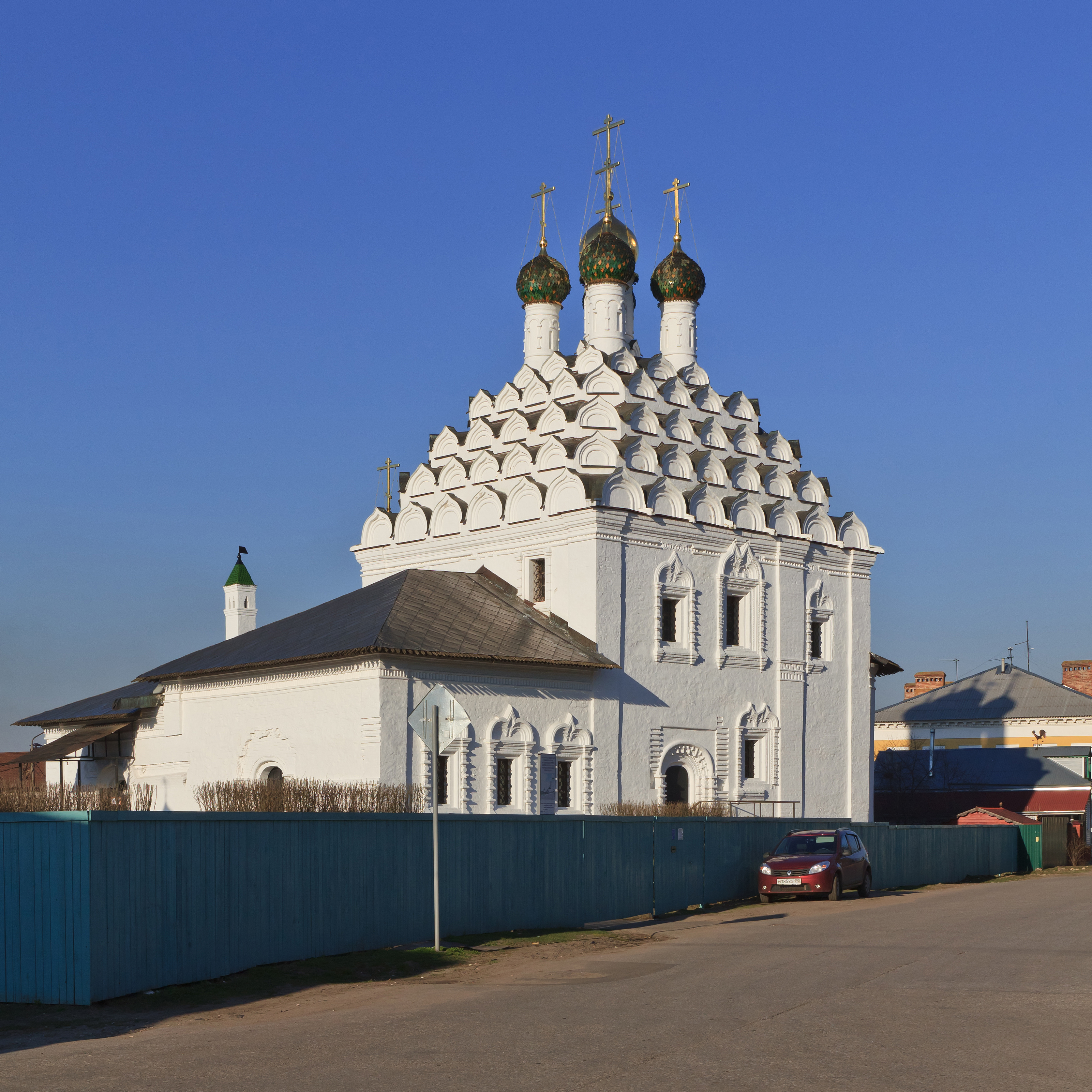 Church of Saint Nicholas in the Posad. Kolomna, Moscow Oblast, Russia.